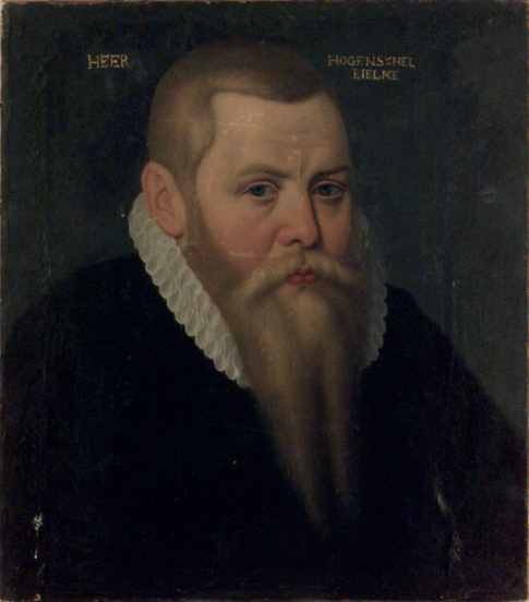 Hogenskild Bielke (1538–1605), Swedish baron and senator (riksråd); executed by Charles IX of Sweden.